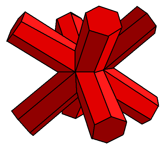 Hexahemioctacron